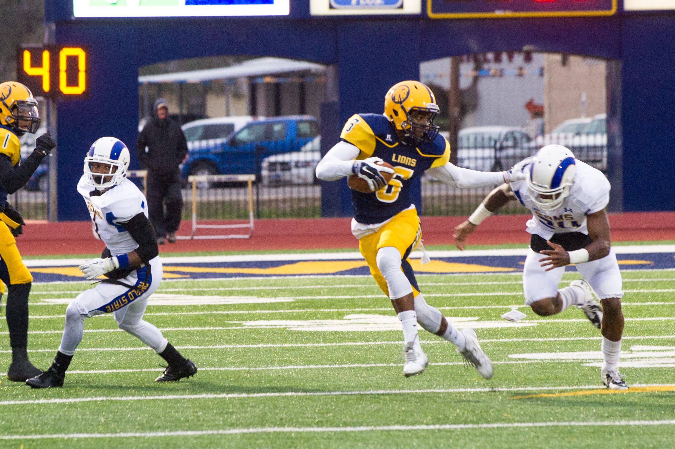 Athletics-Football vs ASU-Playoffs-3858.jpg Scenes from the Angelo State Rams vs. Texas A&M–Commerce Lions football game on November 15, 2014.